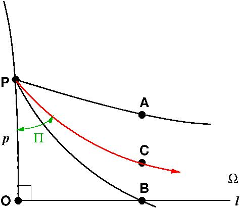 Horoparallel and angle of parallelism.